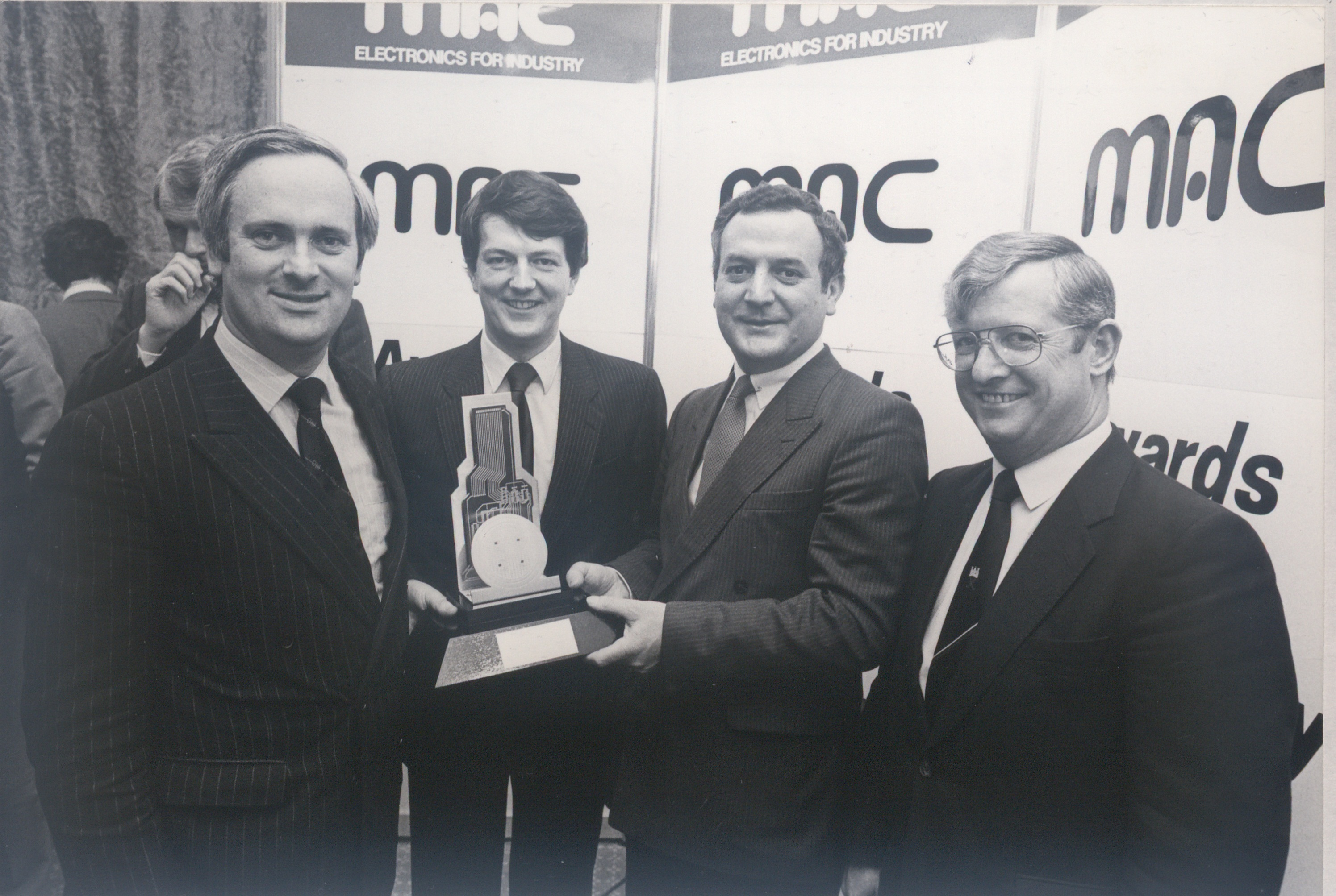 From left: Mr. John Bruton, TD, Minister for Industry, Trade, Commerce and Tourism; Mr. Brendan O'Malley, managing director, National Microelectronics Applications Centre; Mr. Ossie O'Donnell, managing director, Videpro International Products (winners of the overall award) and Mr. Tom Dunne, diector of MAC and deputy general manager, Shanon Development. UL40_Box17_Folder7_002